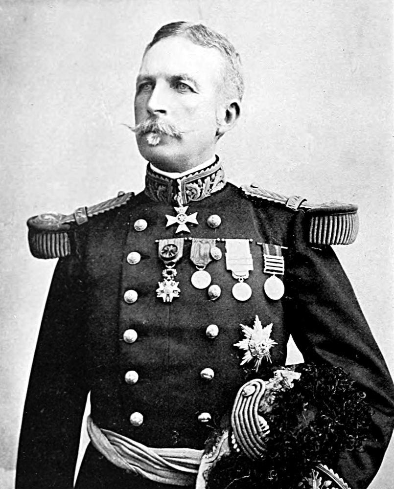 General d'Amade